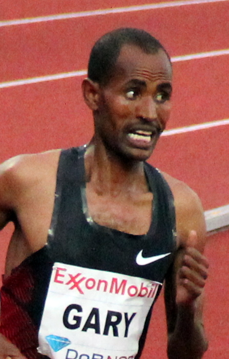 Roba Gary at the 2011 Bislett Games